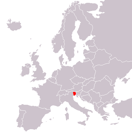 The area where Friulian language is spoken. Based on blank map of Europe